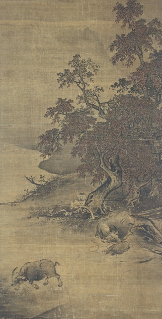 Autumn Fields with Cattle at Pasture, Senoku Hakukokan, Kyoto, Kyoto, Japan